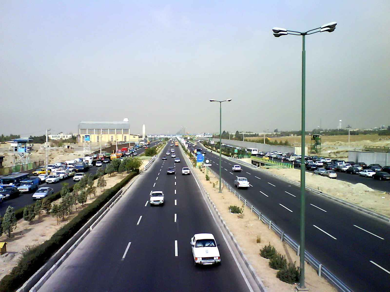 Tehran Karaj Road Km 10